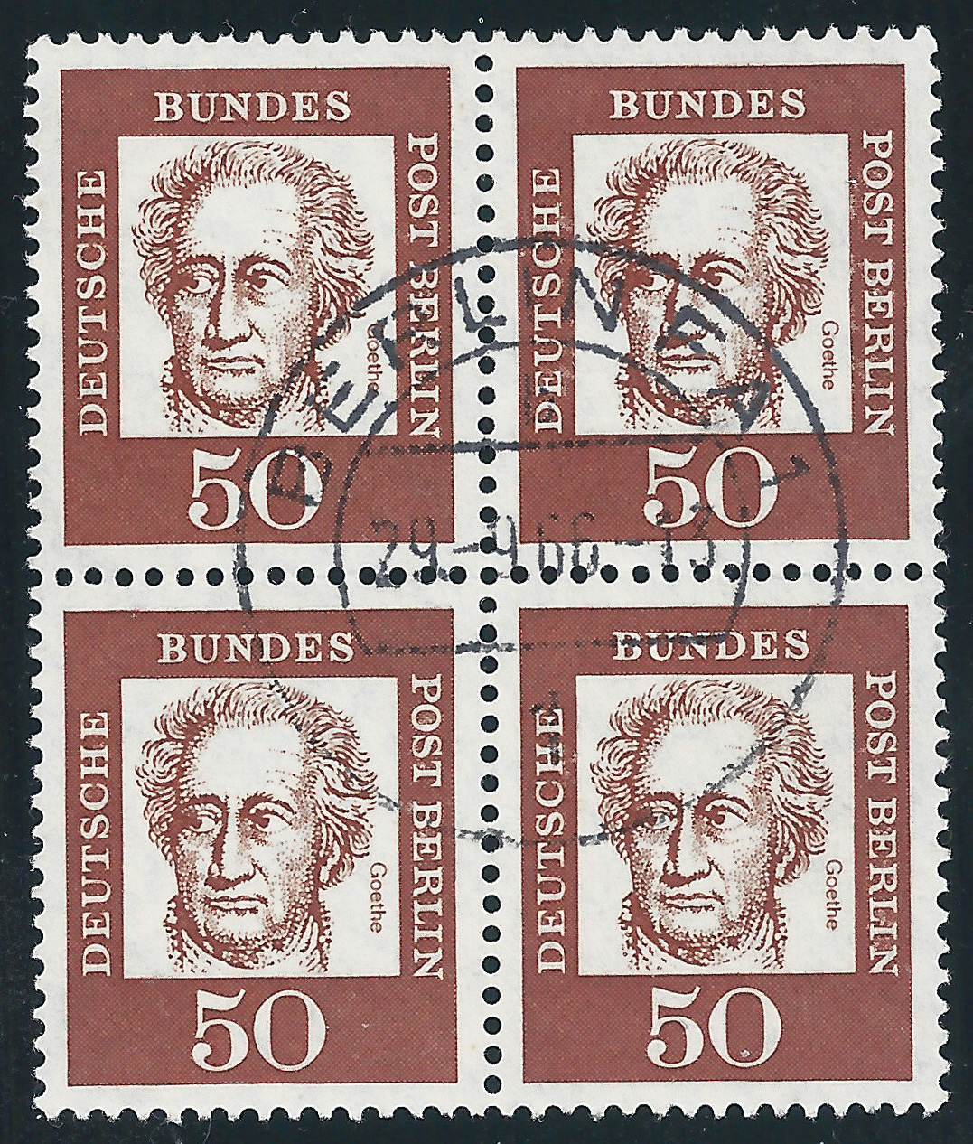 Series of Berlin stamps of distinguished German Graphics by Michel und Kieser Ausgabepreis: 50 Pfennig First Day of Issue / Erstausgabetag: 1. Dezember 1961 Michel-Katalog-Nr: 208 (Berlin)